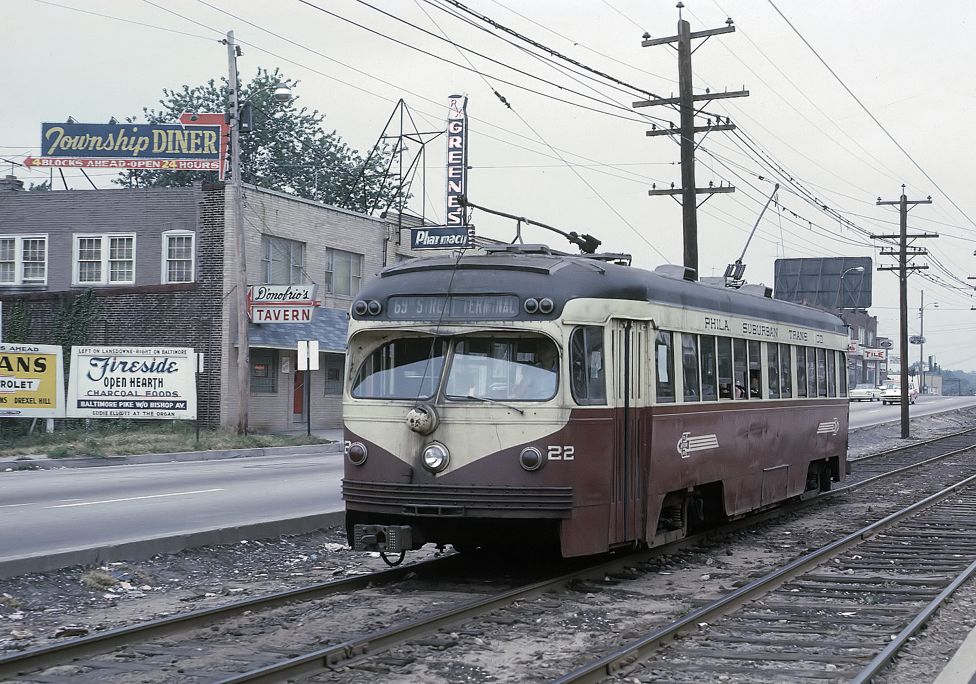 PSTC (Red Arrow) PCC #22 on the Ardmore route runs in the West Chester Pike median in Upper Darby in August 1964, bound for 69th Street Terminal